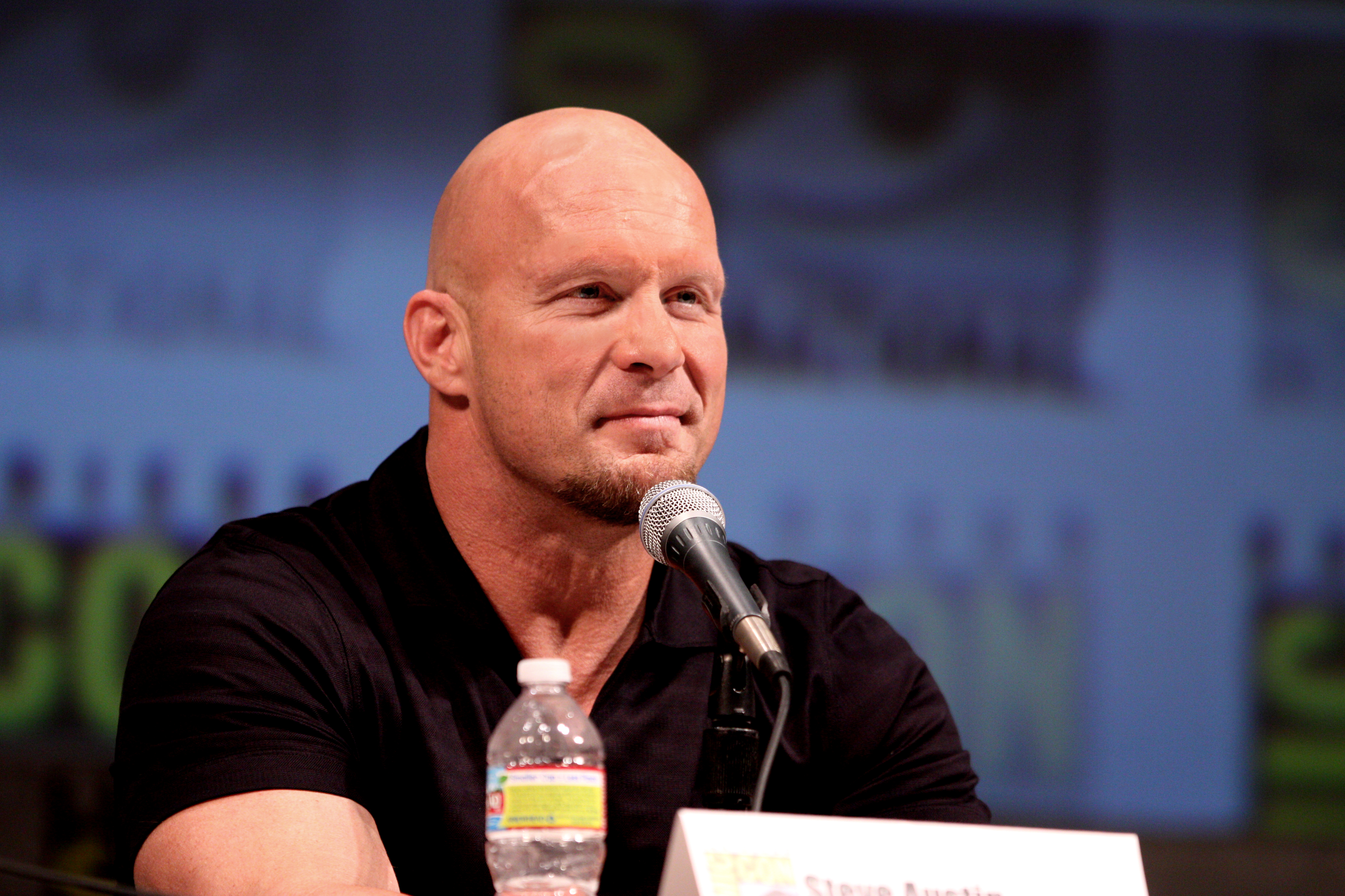 Wrestler and actor Stone Cold Steve Austin on the Expendables panel at the 2010 San Diego Comic Con in San Diego, California.